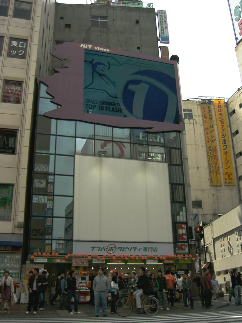 HitShop Mobile phone building Shinjuku, Tokyo